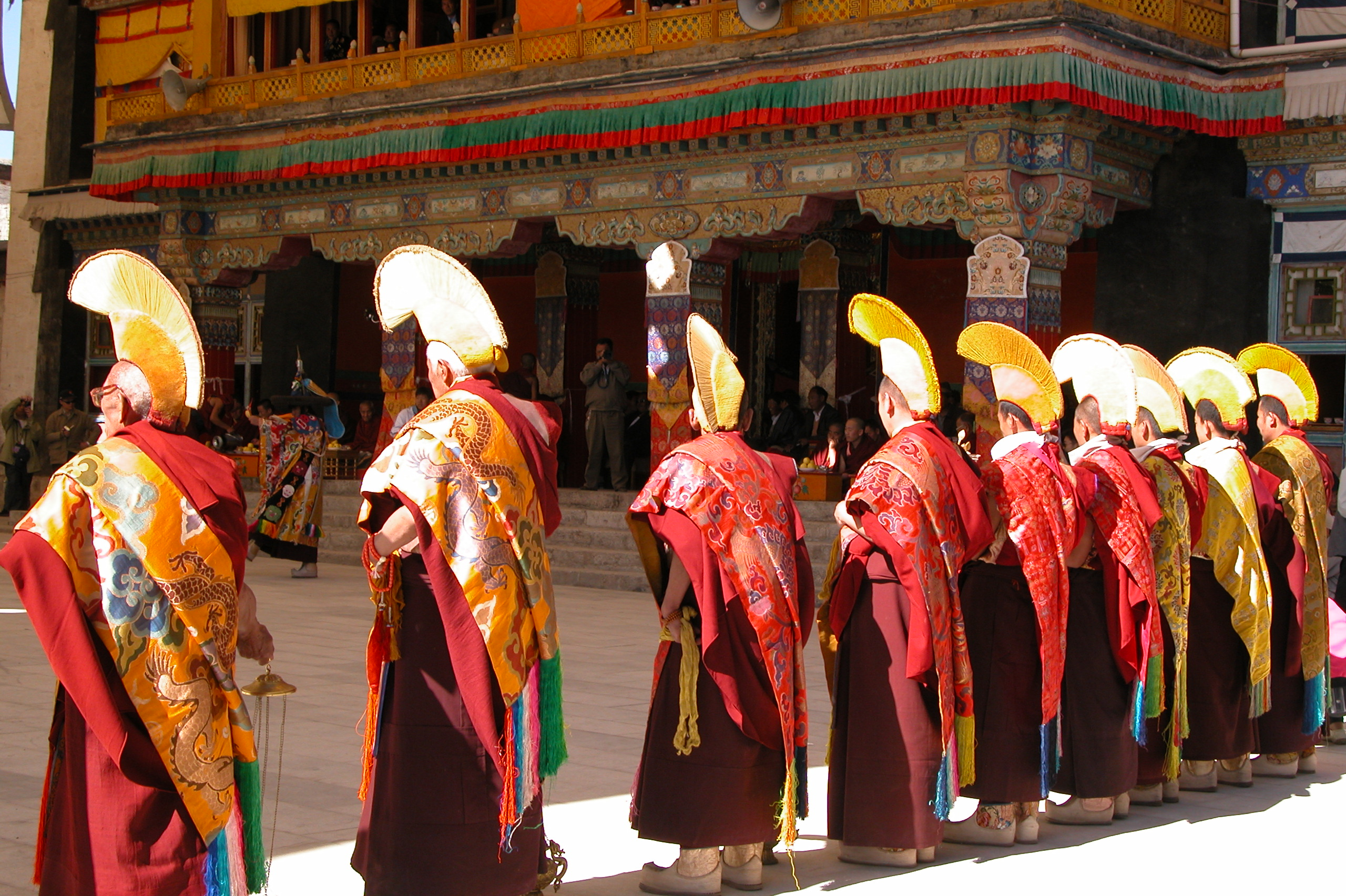 Shigatse Monks at Tashilhunpo Monastery, Tibet